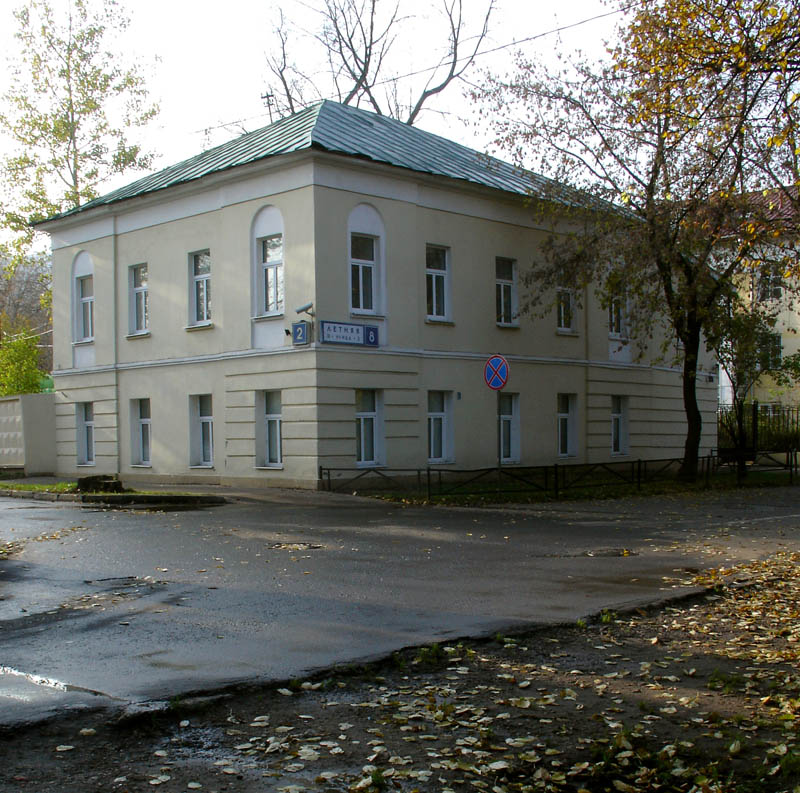 Lyublino Estate, theater school house in the park